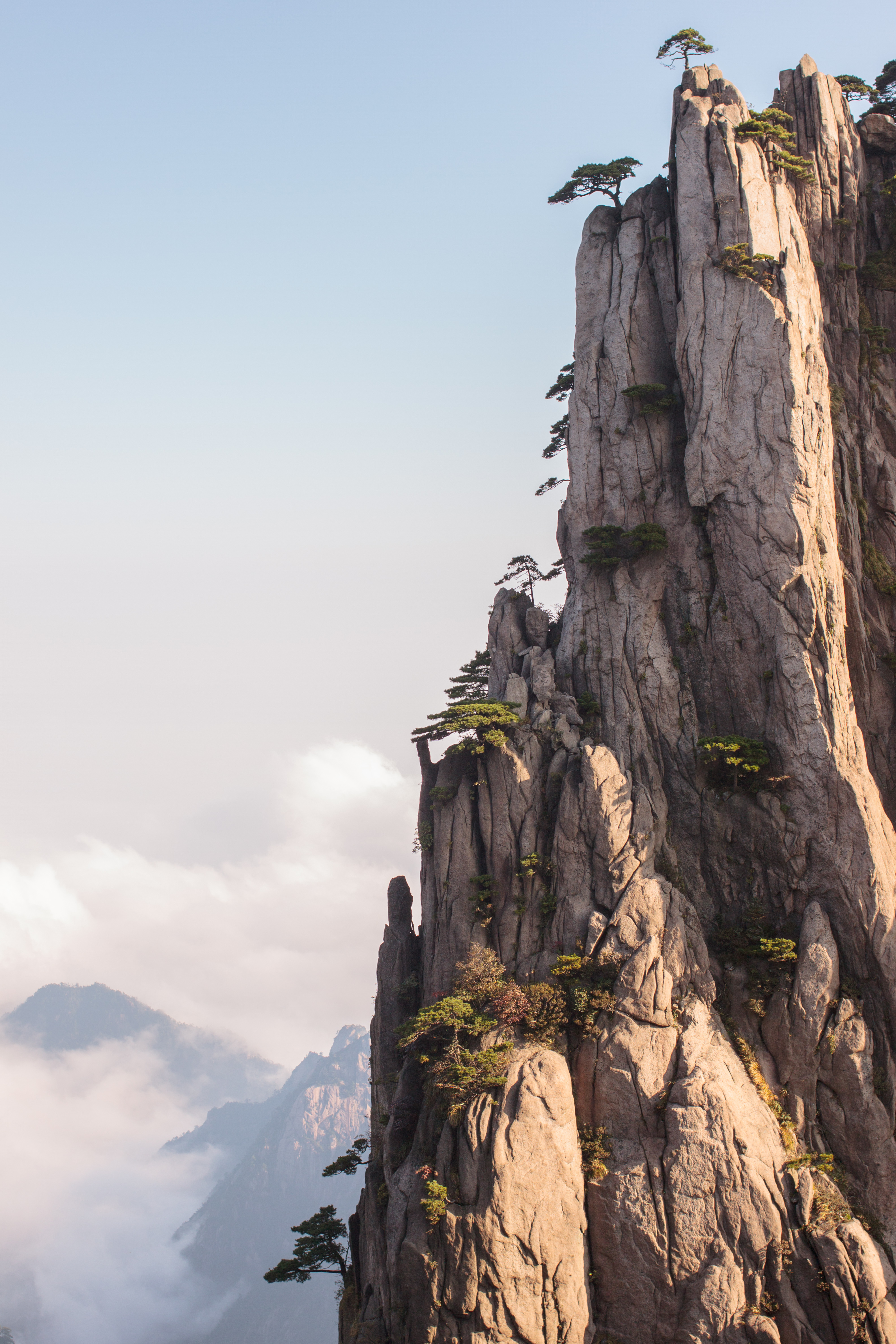 Peak above clouds in HuangShan.